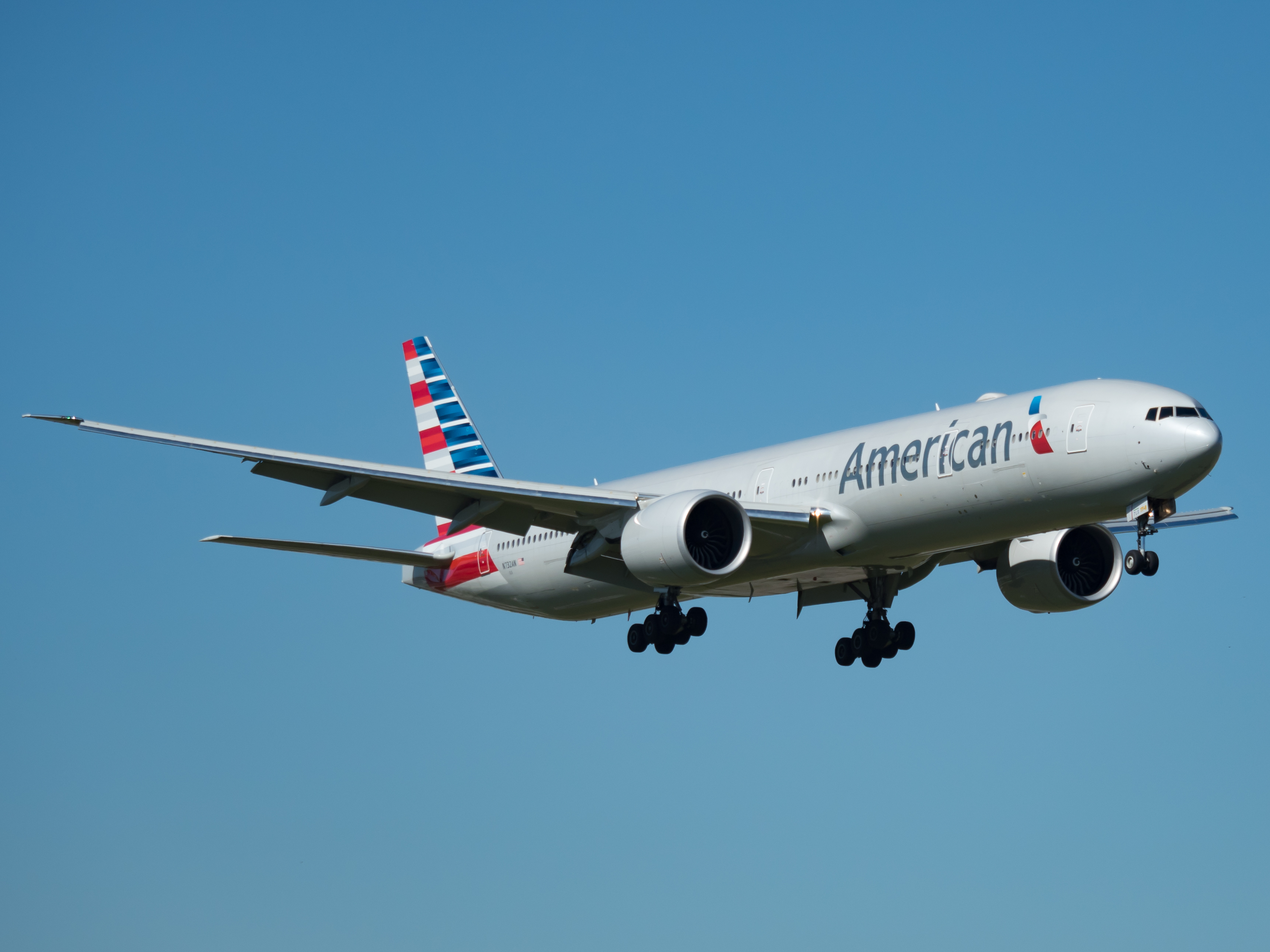 American Airlines Boeing 777 at Miami International Airport